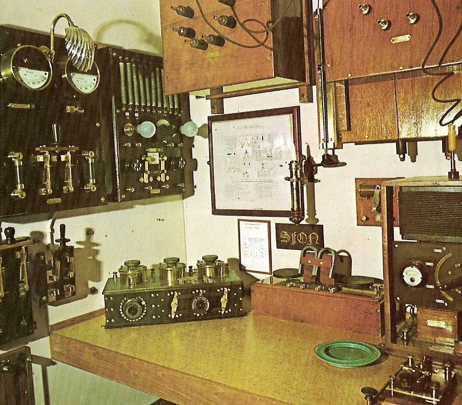 Recreation of a Marconi Co. ship's wireless (radio) room from around 1910 at the Aalborg Maritime Museum, Aalborg, Denmark. It allowed the ship to keep in touch with shore using wireless telegraphy, sending messages in Morse code with a spark gap transmitter using the telegraph key visible on the desk. Signals were received using the receiver (center left) and magnetic detector (center right) on the desk. At the time, the Marconi Co. held a virtual monopoly on maritime radio equipment because it refused to allow its radio stations to communicate with radios made by any other manufacturer.